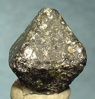 Chromite Locality: Freetown layered complex, Guma Water, Sierra Leone (Locality at ) Size: 1.3 x 1.2 x 1.2 cm. A huge, very sharp, complete all-around, octahedral chromite crystal from a very uncommon locality - the Freetown Layered Complex in Sierra Leone, Africa.